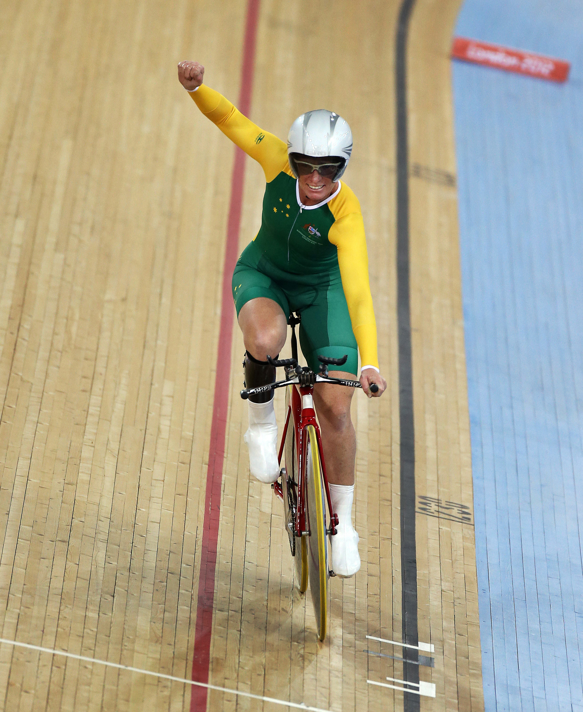 Photograph of Australian Paralympic team member Sue Powell at the 2012 Summer Paralympic Games in London